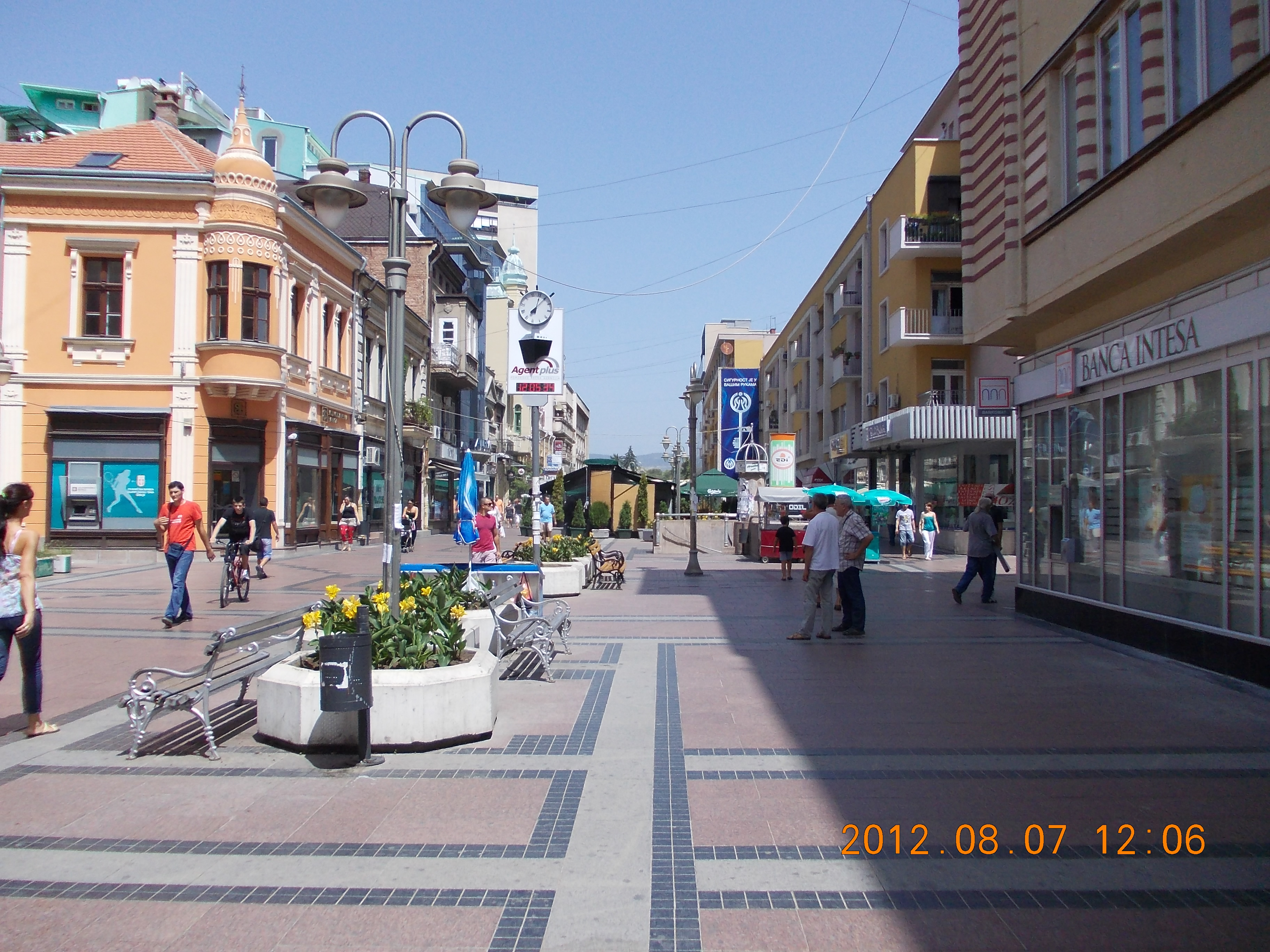 City Center, Niš, Serbia